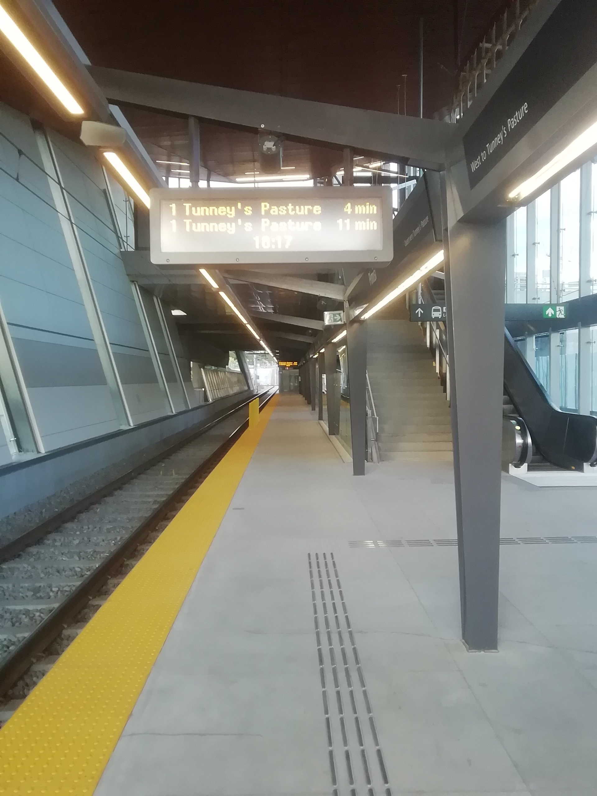 Platform at Pimisi station, Ottawa